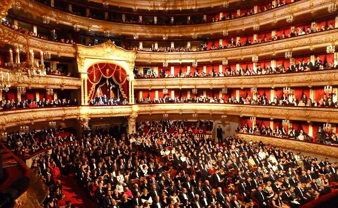 interior of the Moscow's Bolshoi Theatre at the reopening night in 2011, after six years of reconstruction